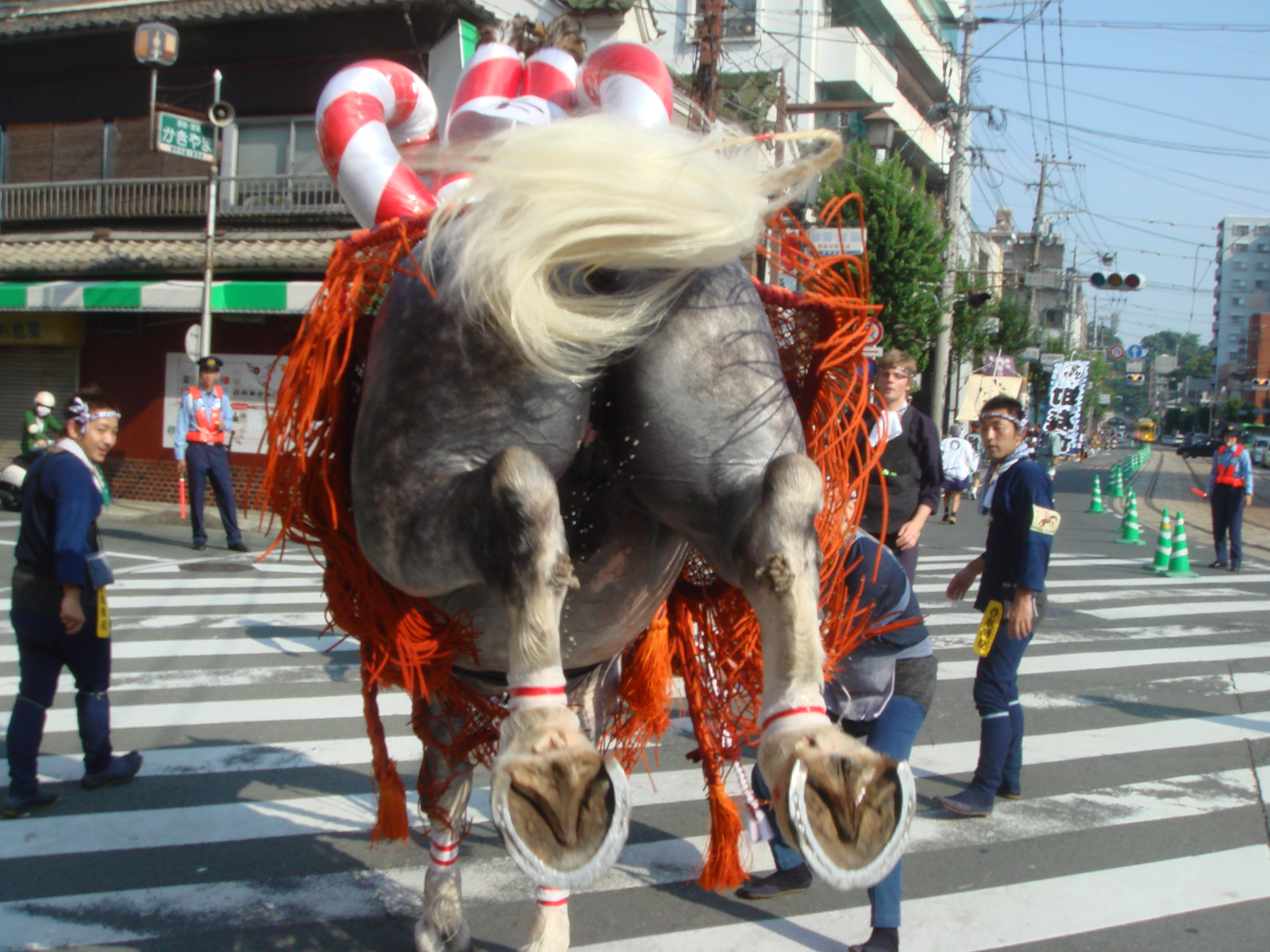 Fujisaki-hachimangu Shrine Grand Festival in 2009